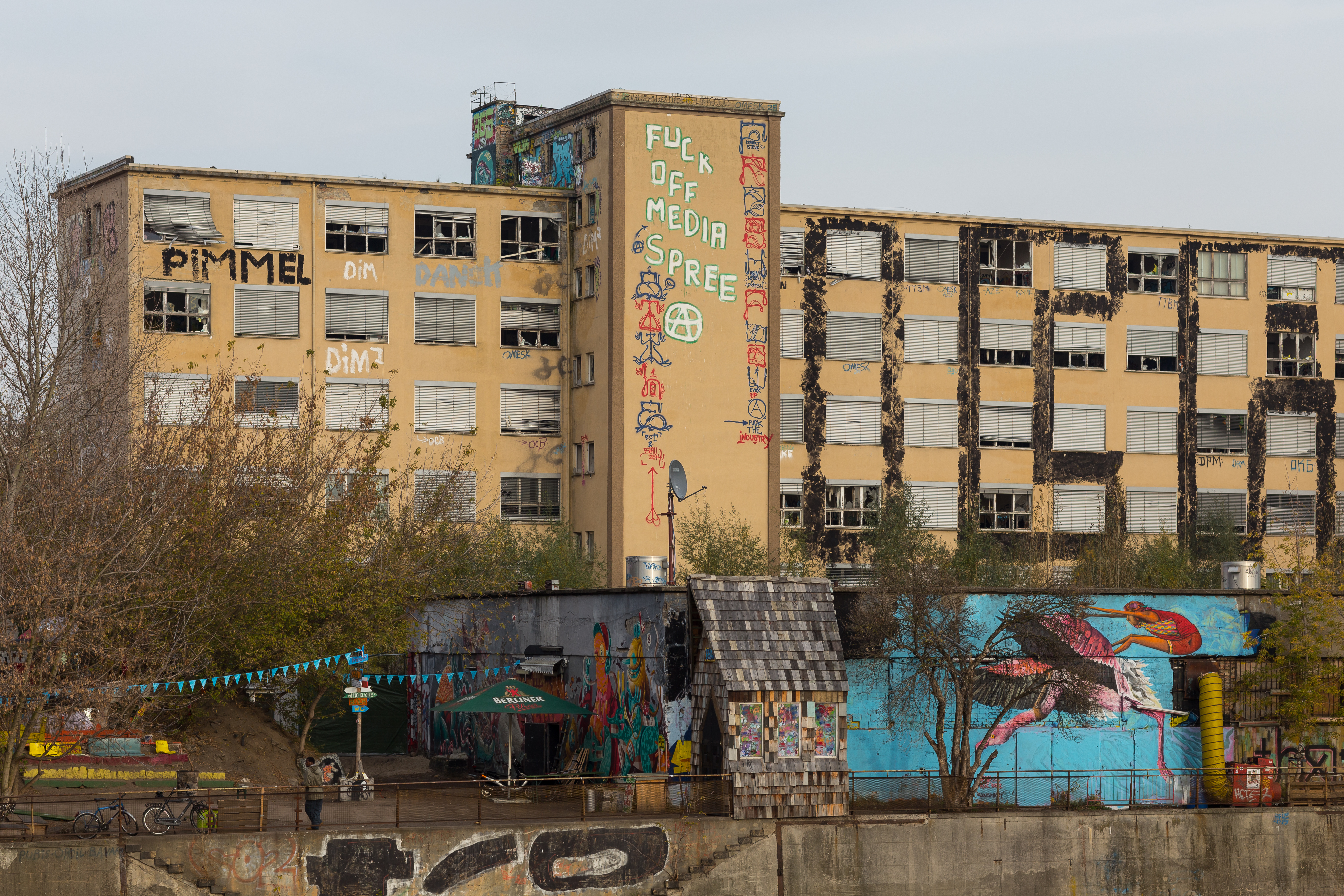 Former administration building of GASAG, located at Stralauer Platz in Friedrichshain district of Berlin, Germany. View from the opposite side of Spree river.